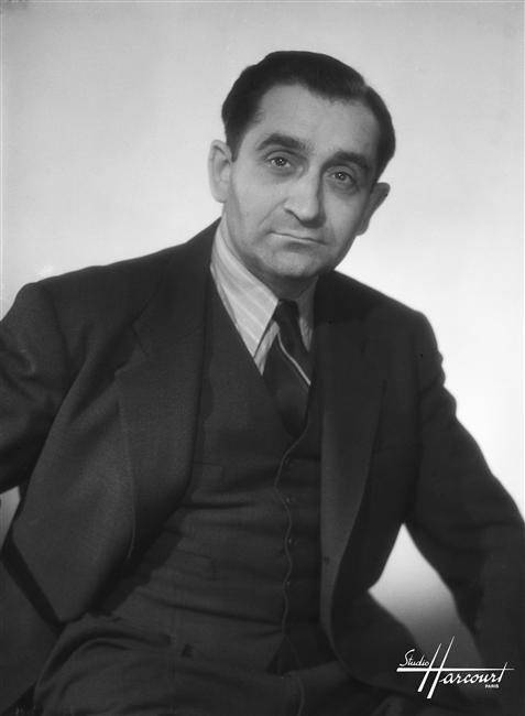 Studio photo